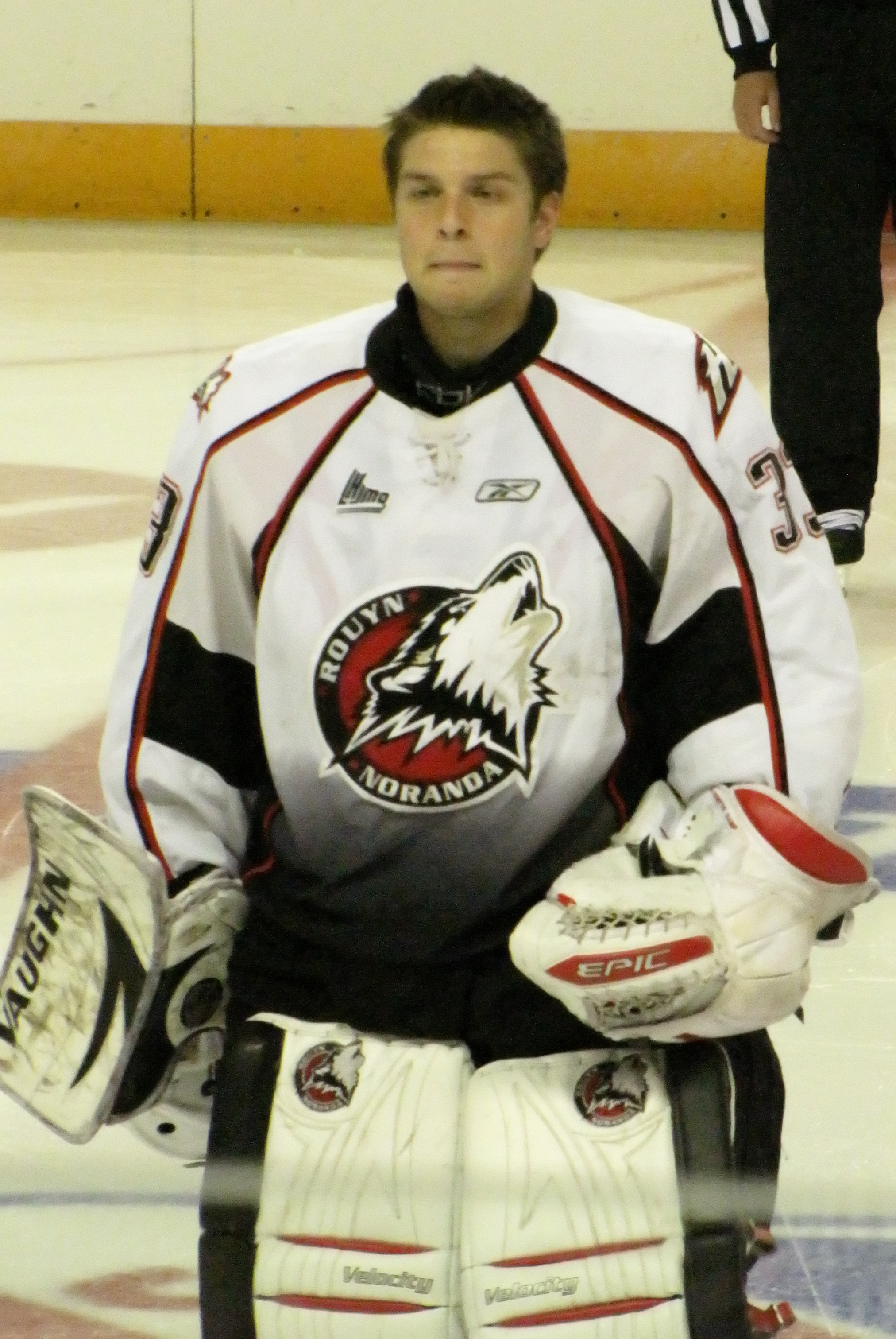 Mickael Audette of the Rouyn-Noranda Huskies